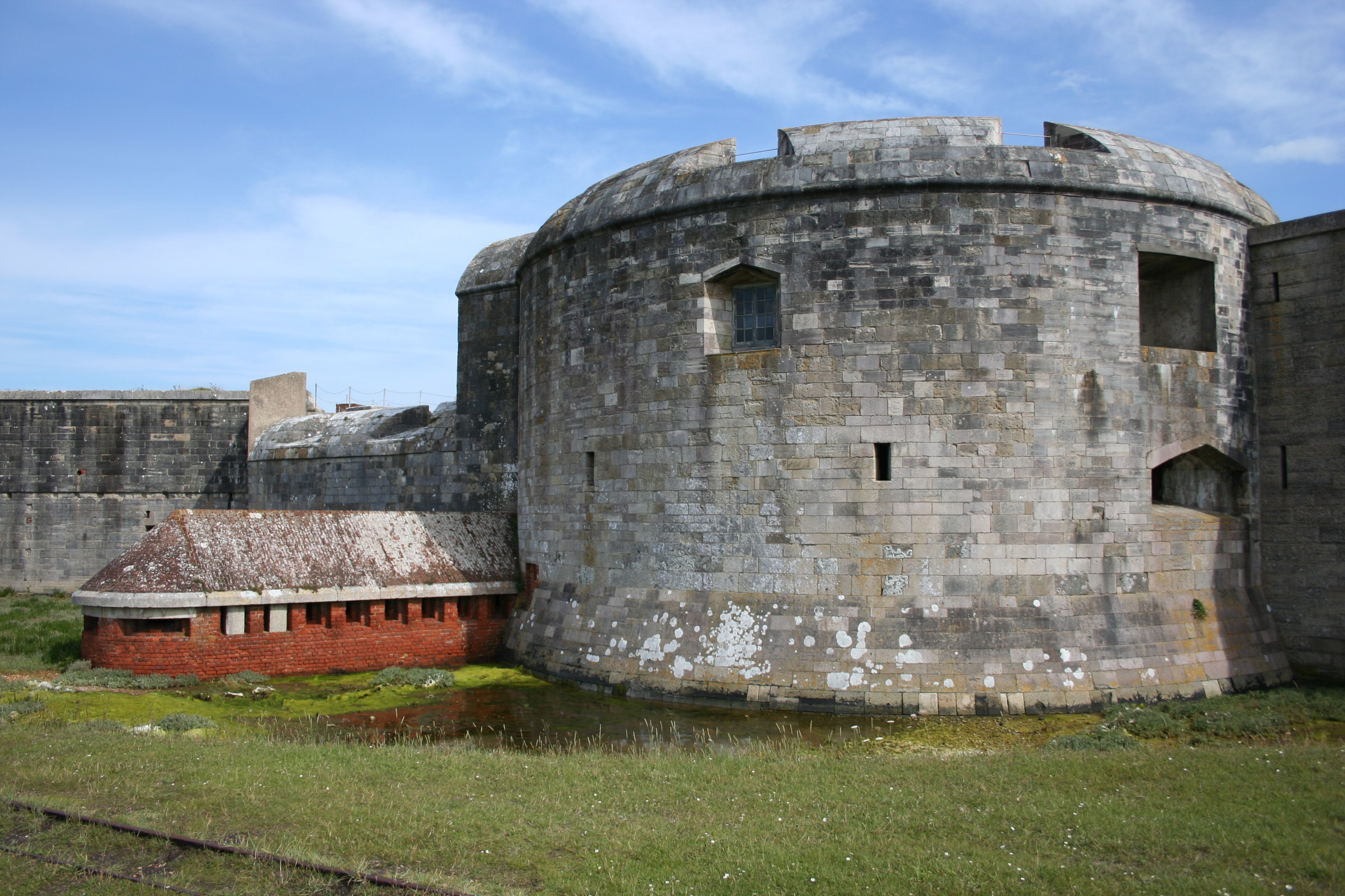 The west bastion of Hurst Castle.